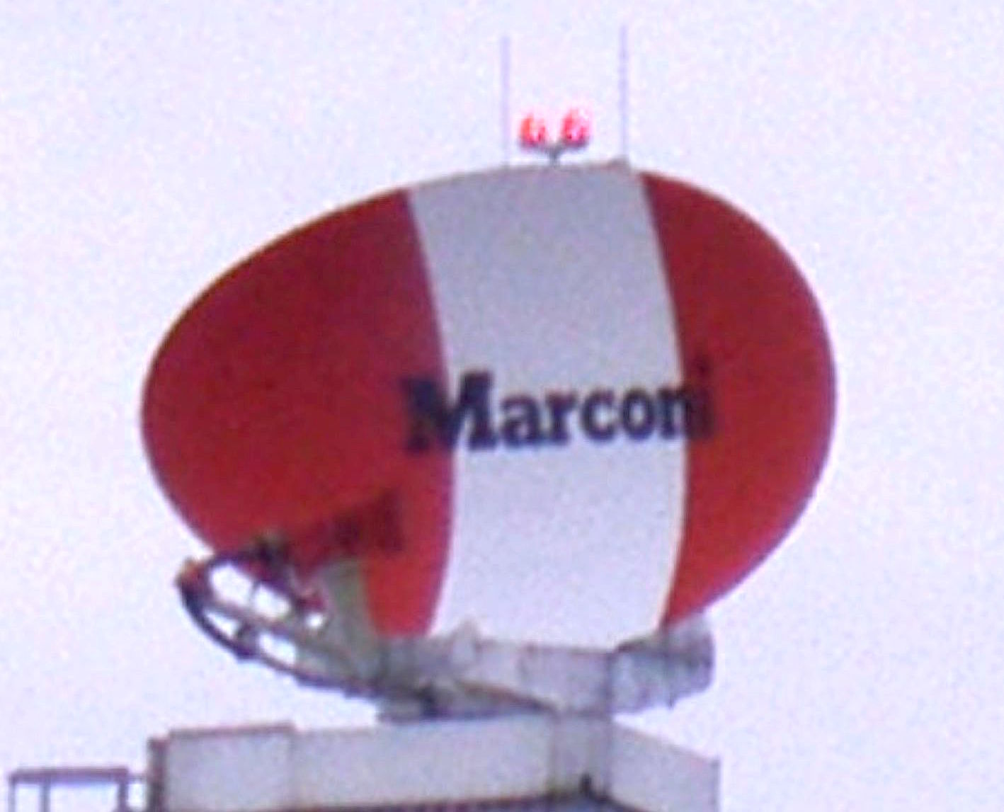 Digital Photo of Marconi Radar dish Digital Photo of Marconi Radar dish